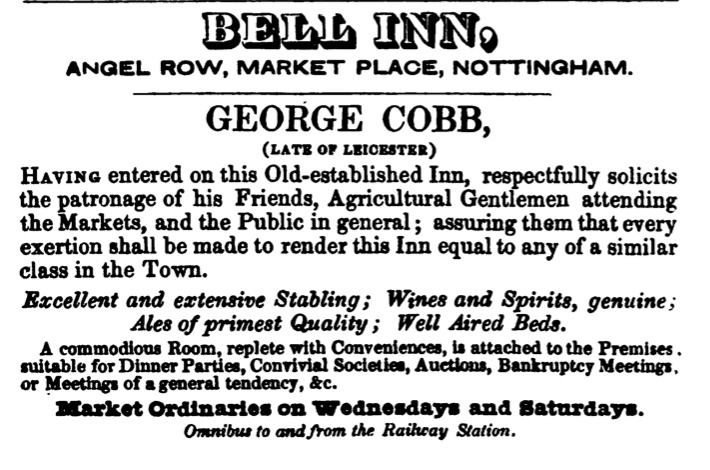 George Cobb, Bell Inn, Angel Row, Market Place, Nottingham from the Midland Counties' Railway Companion of 1840.